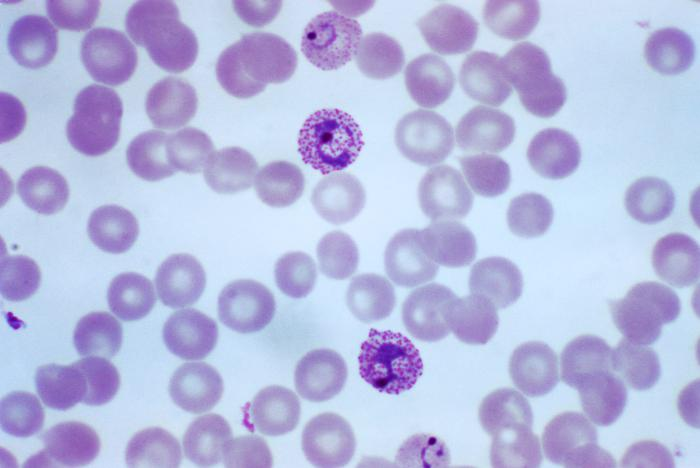 ID#: 2720 Description: This photomicrograph of a blood smear contains both immature and mature trophozoites of the Plasmodium vivax parasite. An immature trophozoite of P. vivax is shown at the top of the slide in its characteristic ring shape, while the mature trophozoites contain large ameboid cytoplasms with large chromatin and fine yellowish brown pigment. Content Providers(s): CDC/Dr. Mae Melvin Creation Date: 1973 Copyright Restrictions: None - This image is in the public domain and thus free of any copyright restrictions. As a matter of courtesy we request that the content provider be credited and notified in any public or private usage of this image.